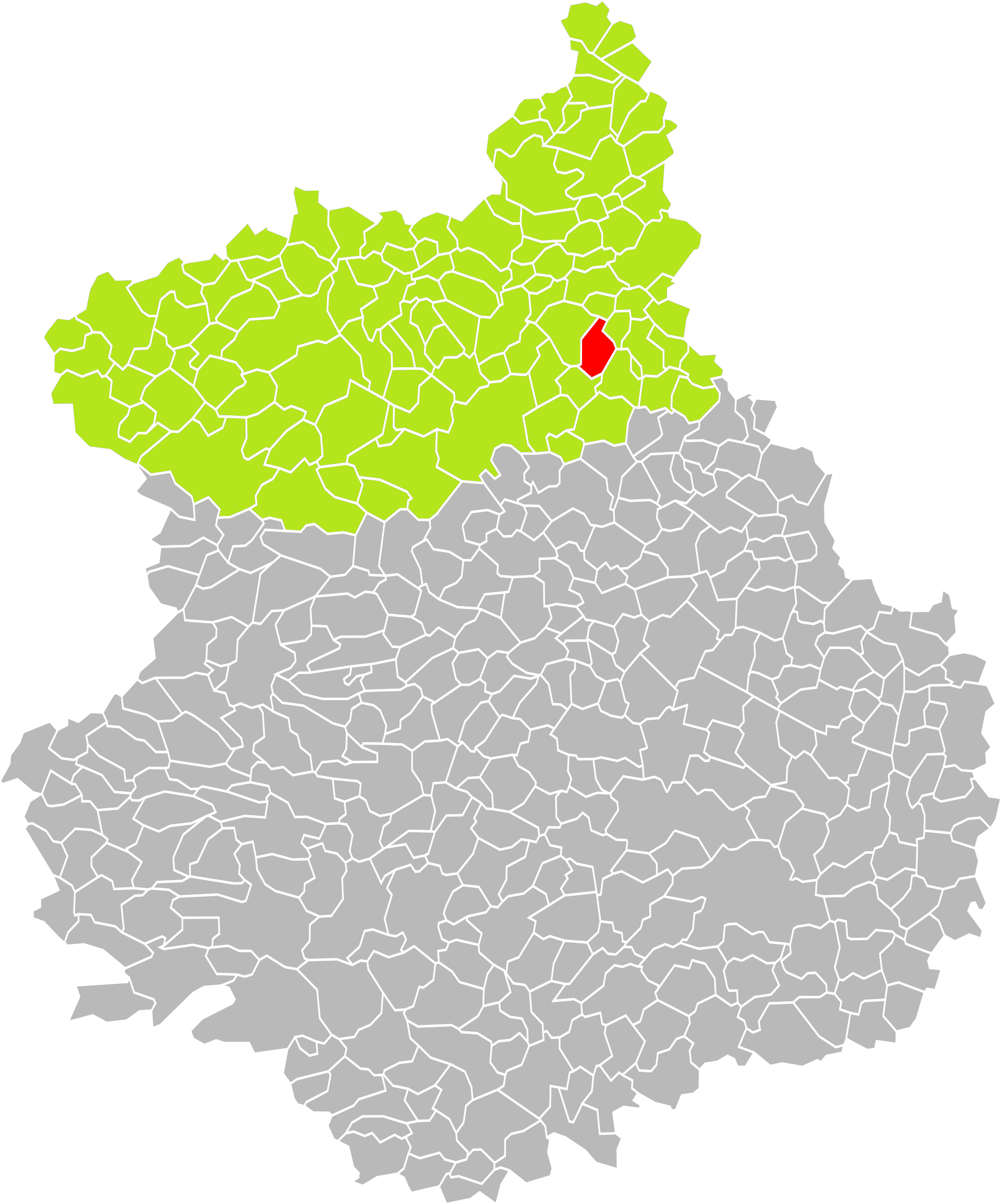 Location of the commune of Chaudon in the arrondissement of Dreux (Eure-et-Loir)